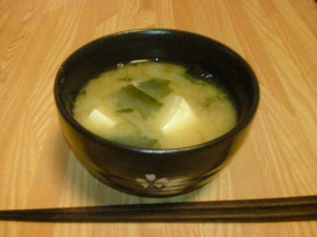 Take 2/10/2007,working user:ish-ka in user:ish-ka's home.